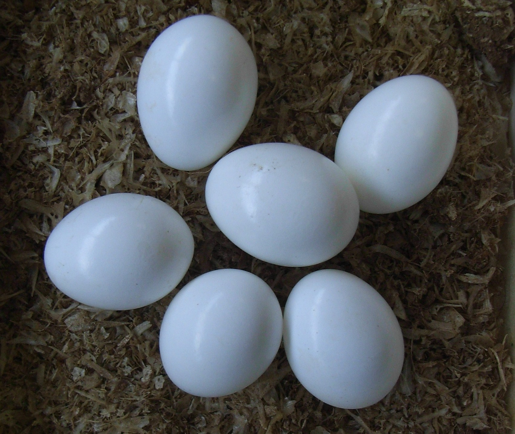 Alcedo atthis eggs